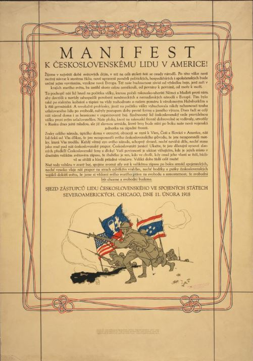 “'Manifest k Ceskoslovenskému lidu v Americe!" (Manifesto to the Czechoslovak people in America) is one of a series of posters recruiting Czech and Slovak volunteers to fight with the Czechoslovak Legion against Austria-Hungary and Germany for an independent Czechoslovakia. A soldier carries the flags of the United States and of the Slovak and Czech independence movements.